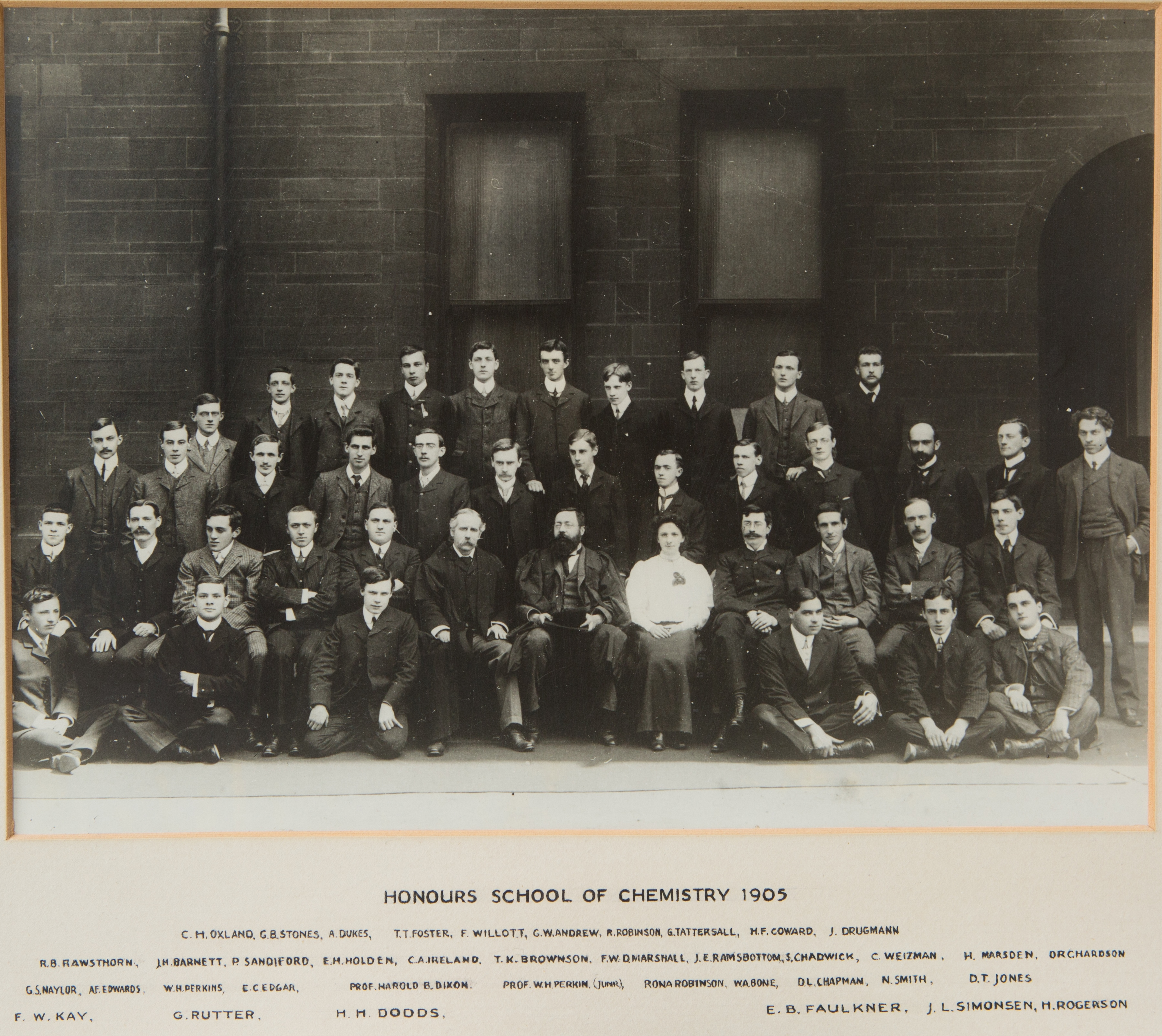 1905 Honours School of Chemistry, Victoria University of Manchester featuring Rona Robinson (front row)